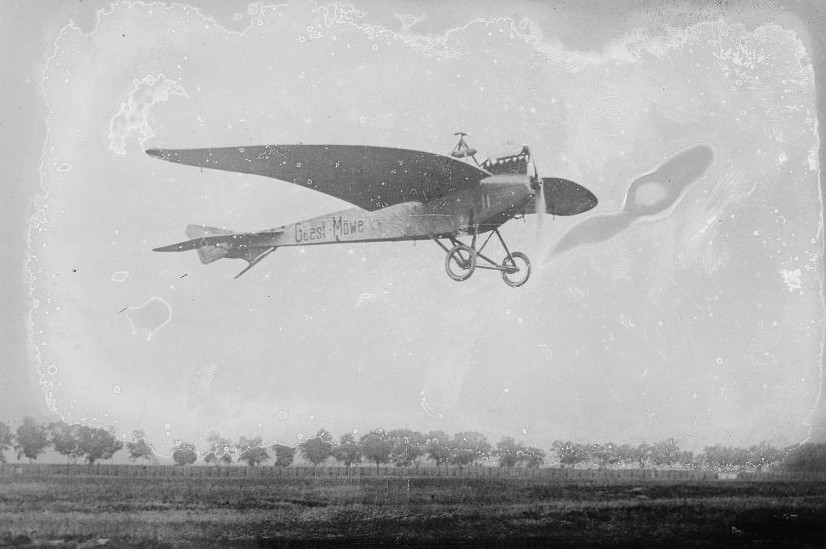 A German Geest Möwe monoplane in flight. Geest built six Möwe (Möwe I-VI) planes between 1910 and 1914.